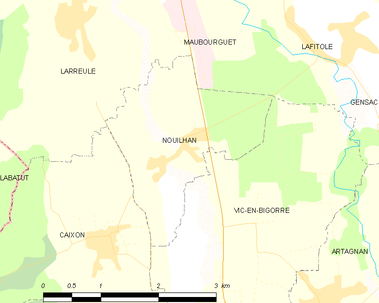 Map of French municipality